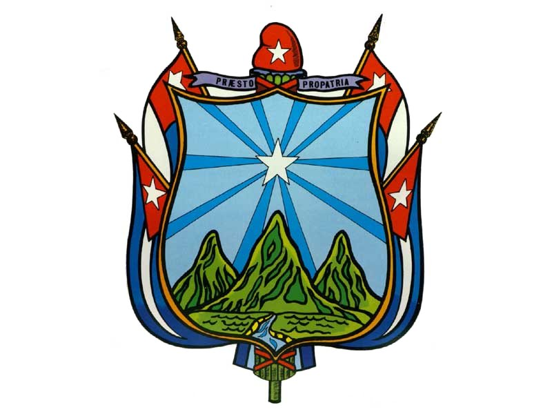 The official seal of the Cuban province of Oriente, one of the original six provinces of Cuba until 1976. Part of the present day Santiago de Cuba Province.